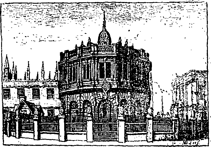 Fleuron from book: Halkhut talmud torah rabi Mosheh ben Maimon R. Mosis Maimonidis tractatus duo: 1 De Doctrina Legis, sive Educatione Puerorum. 2 De Natura & ratione Poenitentiae apud Hebraeos. Latinè reddidit, notisque illustravit Robertus Clavering, A.M Coll. Universitatis Socius. Praemittitur dissertatio de Maimonide ejusque operibus..